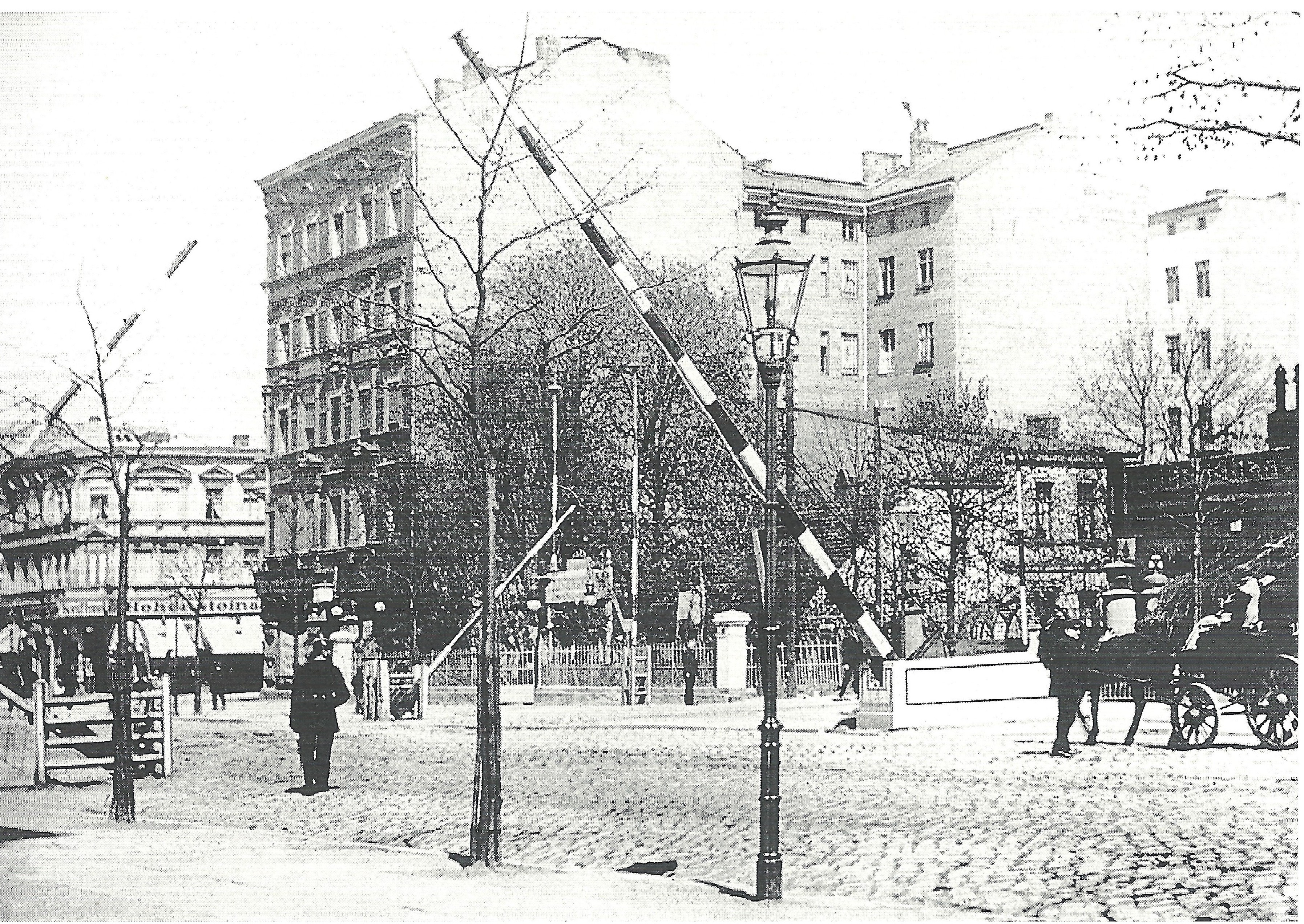 Badstraße mit Bahnübergang der Berlin-Stettiner Eisenbahn um 1890